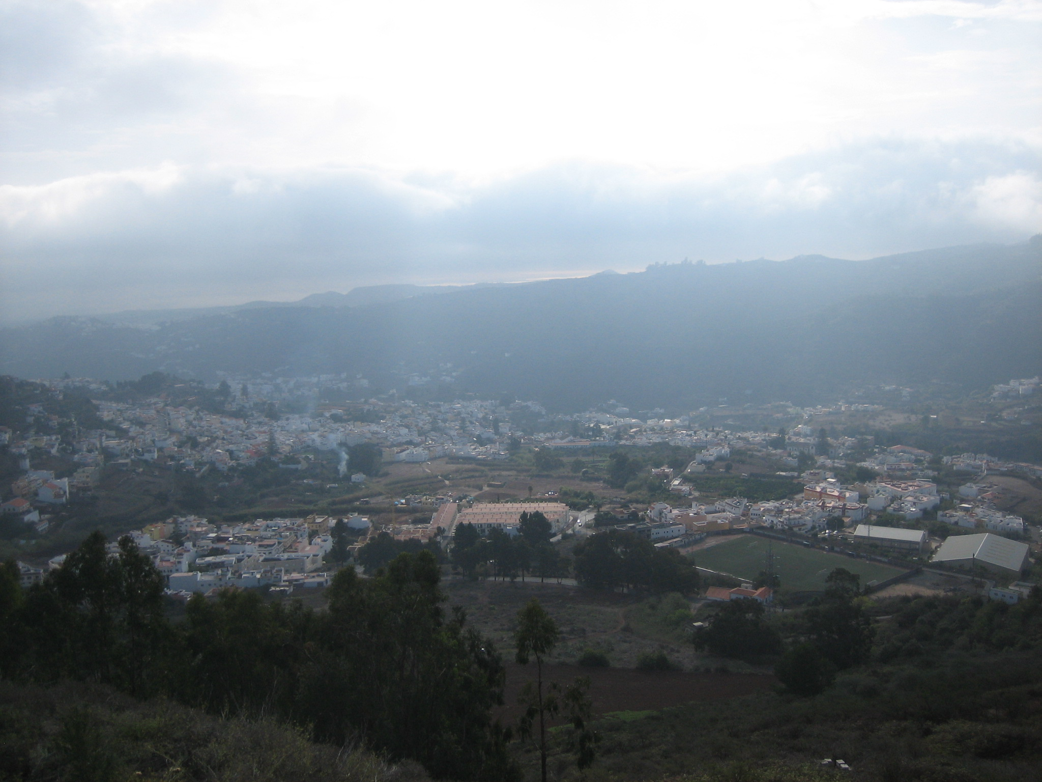 Teror, view from to Valleseco road. Gran Canaria, Canary Islands.